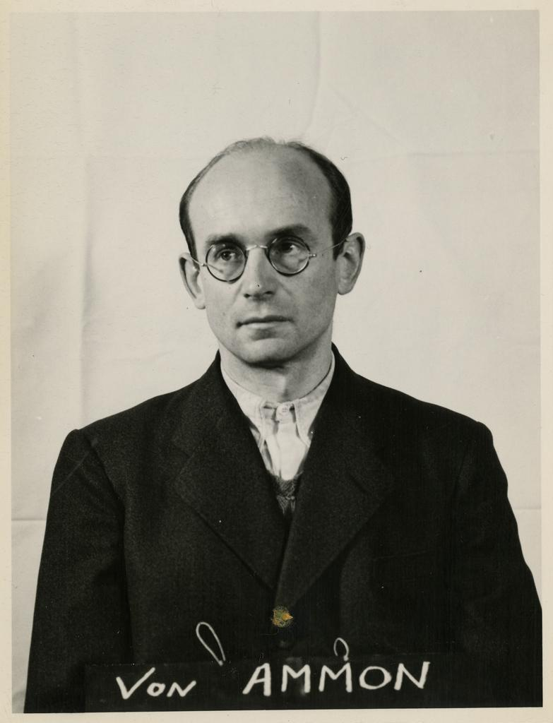 Wilhelm von Ammon (1903-1992) was a high ranking official (Landgerichtsrat) in the German Ministry of Justice (Reichsjustizministerium) during the Second World War. This photograph of Ammon (probably as a defendant during the Nurmeberg Trials No. III - the Justice Case) was taken by US Army photographers on behalf of the Office of the U.S. Chief of Counsel for the Prosecution of Axis Criminality (OUSCCPAC, May 1945 - Oct. 1946) or its successor organization, the Office of Chief of Counsel for War Crimes (OCCWC, Oct. 1946 - June 1949).